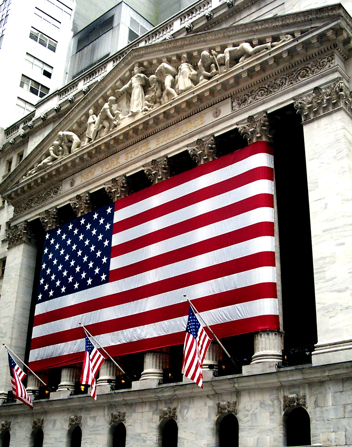 north america, flag of the New York Stock Exchange, flag, northeast, mid-atlantic